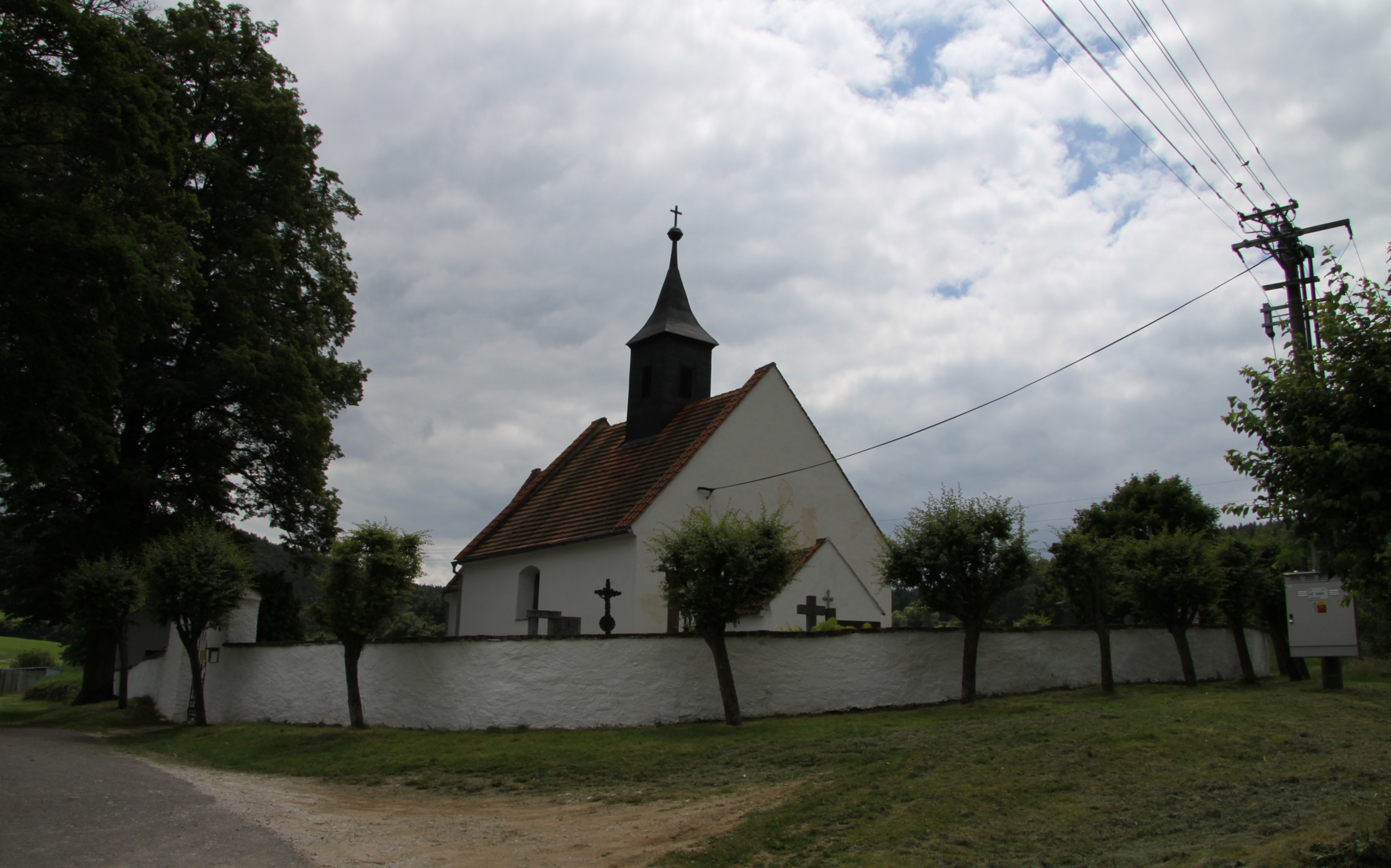 Church of Sant Jacob and Filip in Hejná village, Klatovy District, Czech Republic This photograph was taken within the scope of the 'Czech Municipalities Photographs' grant. - Google Maps - Google Earth